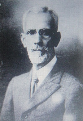 Trinidad's portrait.